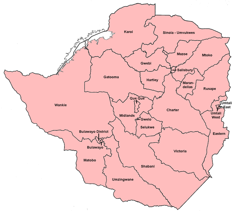 European-roll constituencies in Rhodesia after the 1970 Delimitation, in operation at the 1970, 1974 and 1977 general elections.